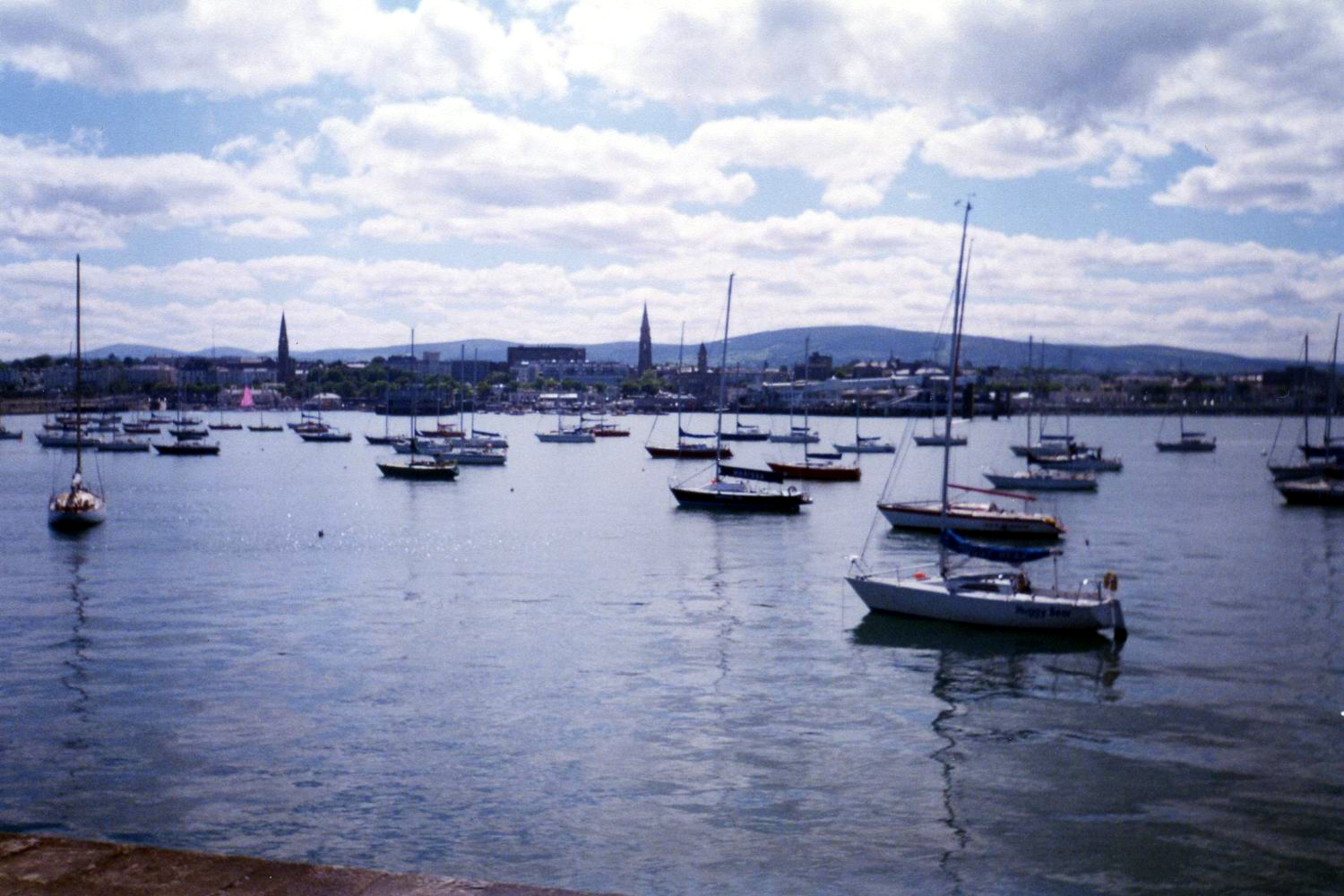 Dun Laoghaire harbour, Dun Laoghaire, County Dublin, Ireland (2001)